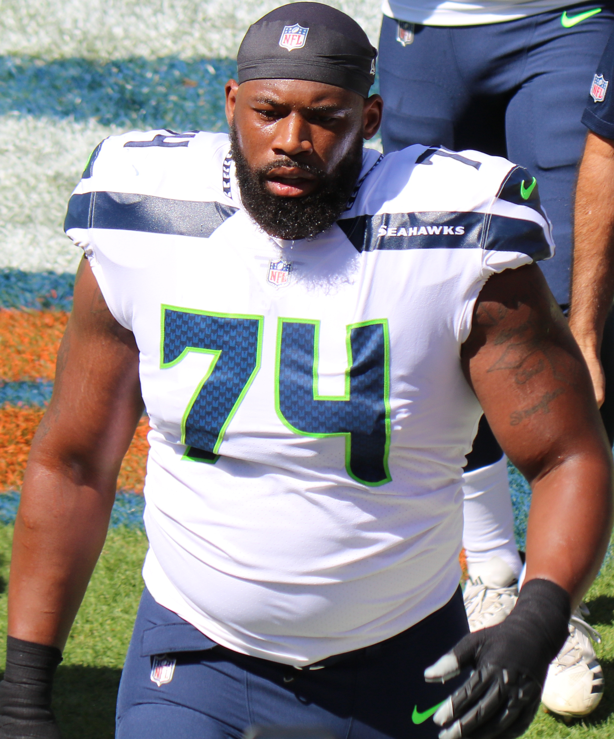 George Fant, a National Football League player.